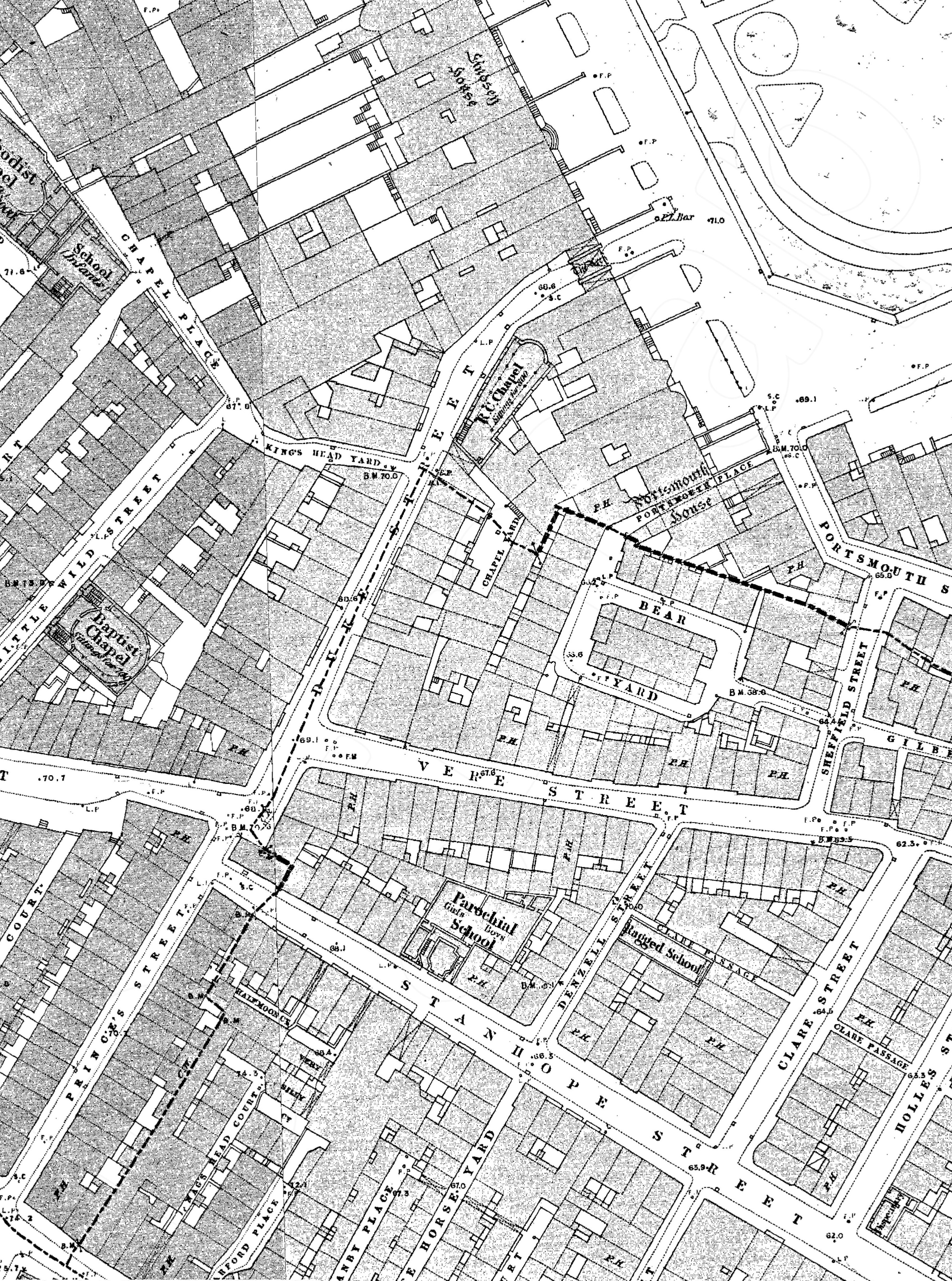 Duke_Street area Ordnance Survey map 1870s.